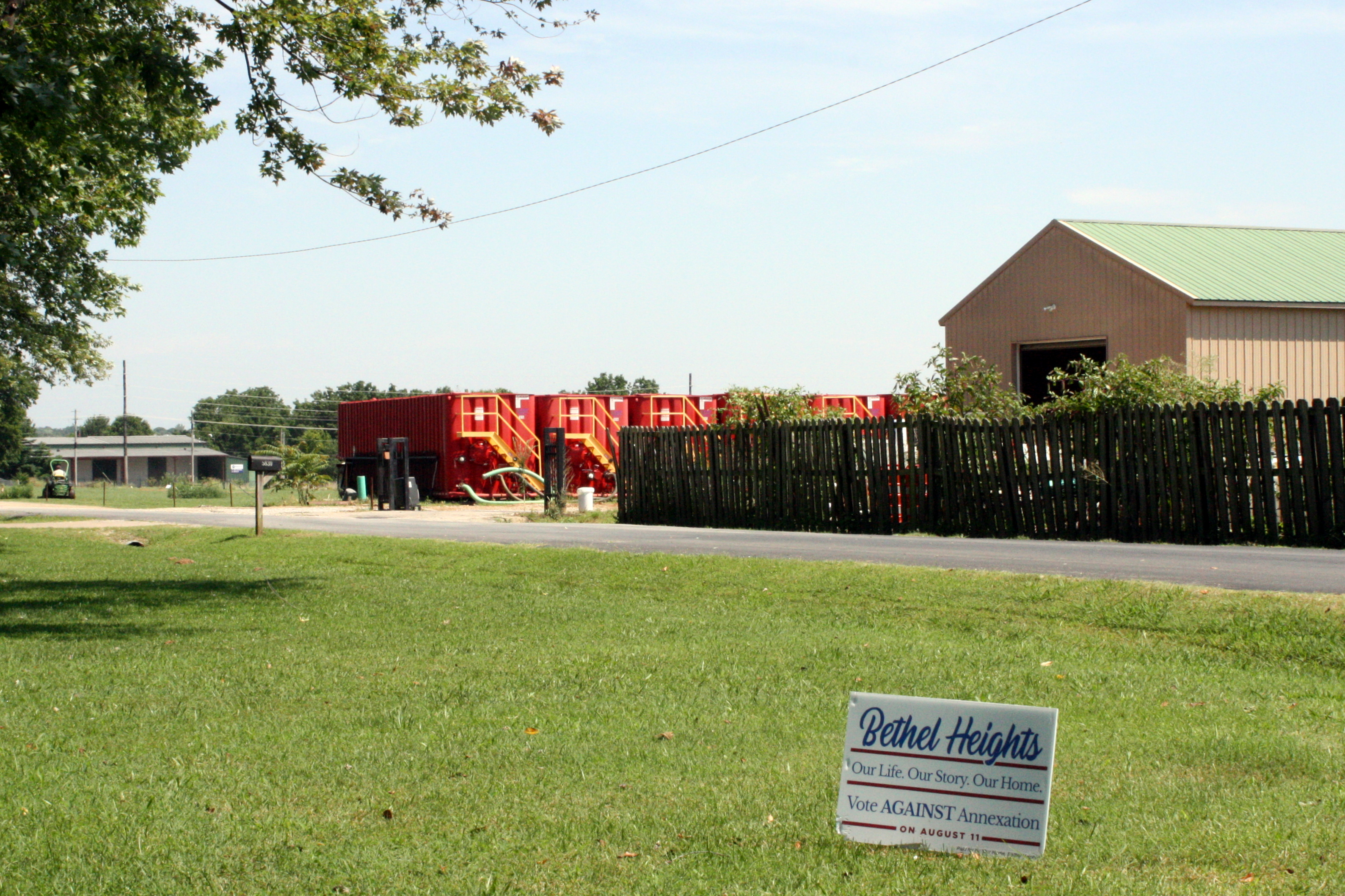 A sign opposing Bethel Heights' annexation into Springdale located across the street from the city's public works building, containing emergency sewage treatment units, the impetus of the annexation vote